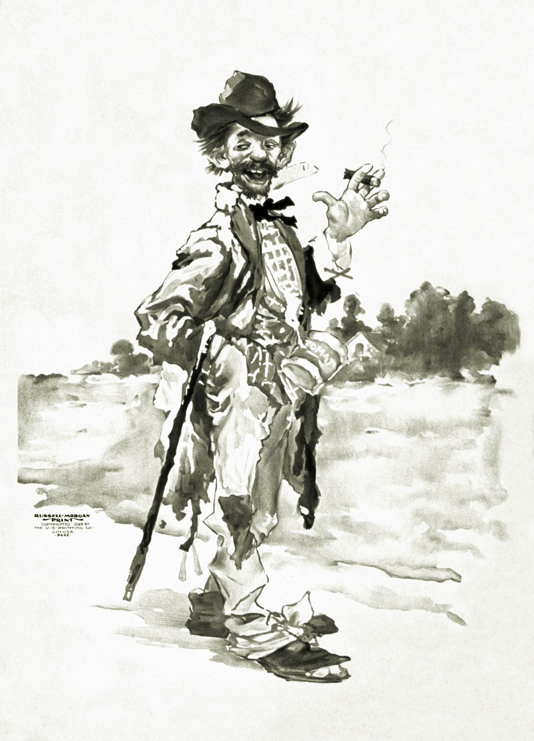 Russel-Morgan Print of a Tramp smoking cigar with cane over arm